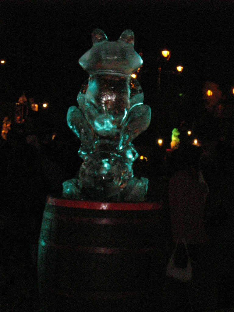 Icefrog at Jellyfest. Miskolc, Hungary, 2008.